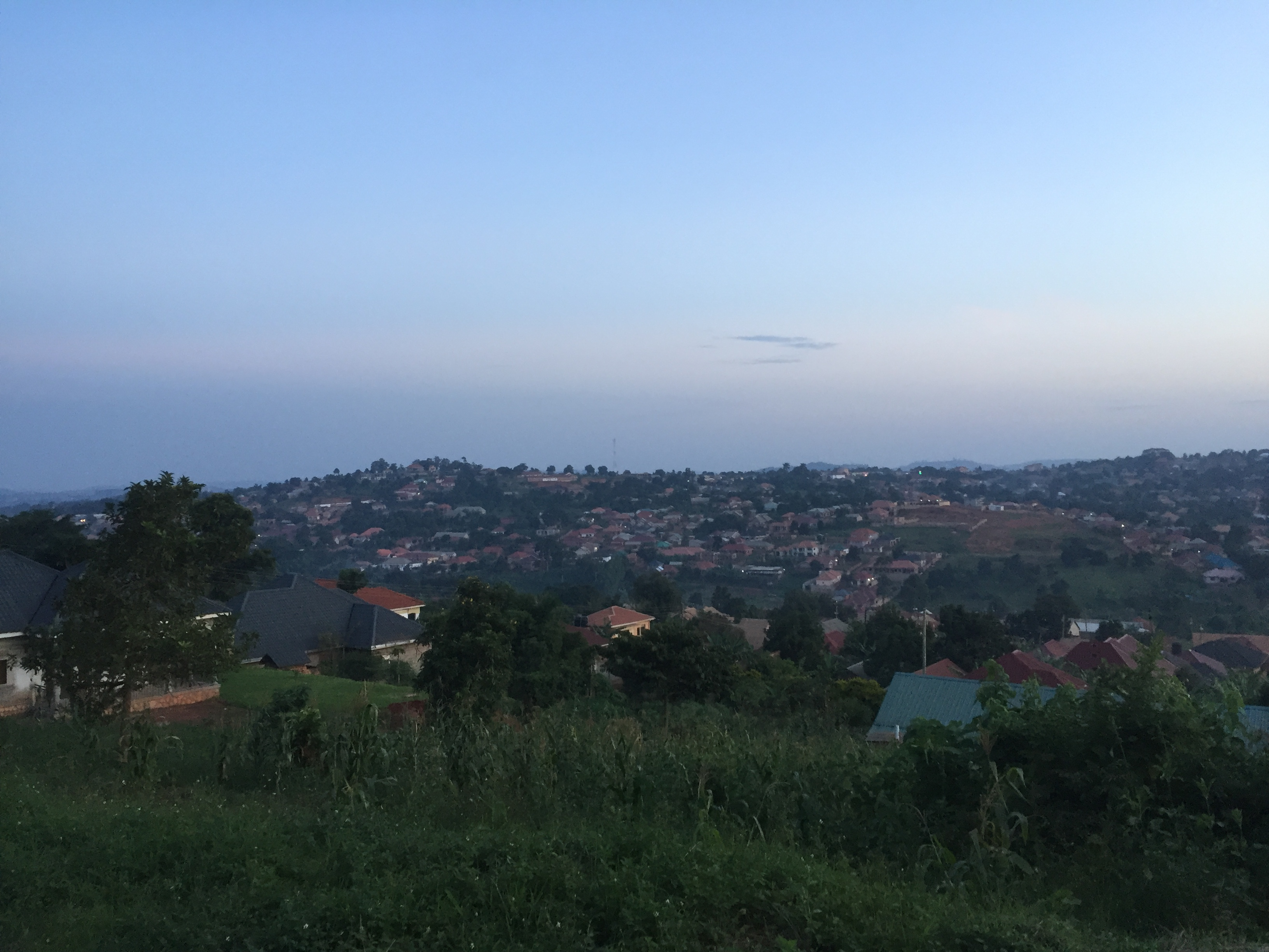 A view of a hill with residential houses. It’s located in Uganda Wakiso District Bulenga This is an image with the theme "Africa on the Move or Transport" from: Uganda